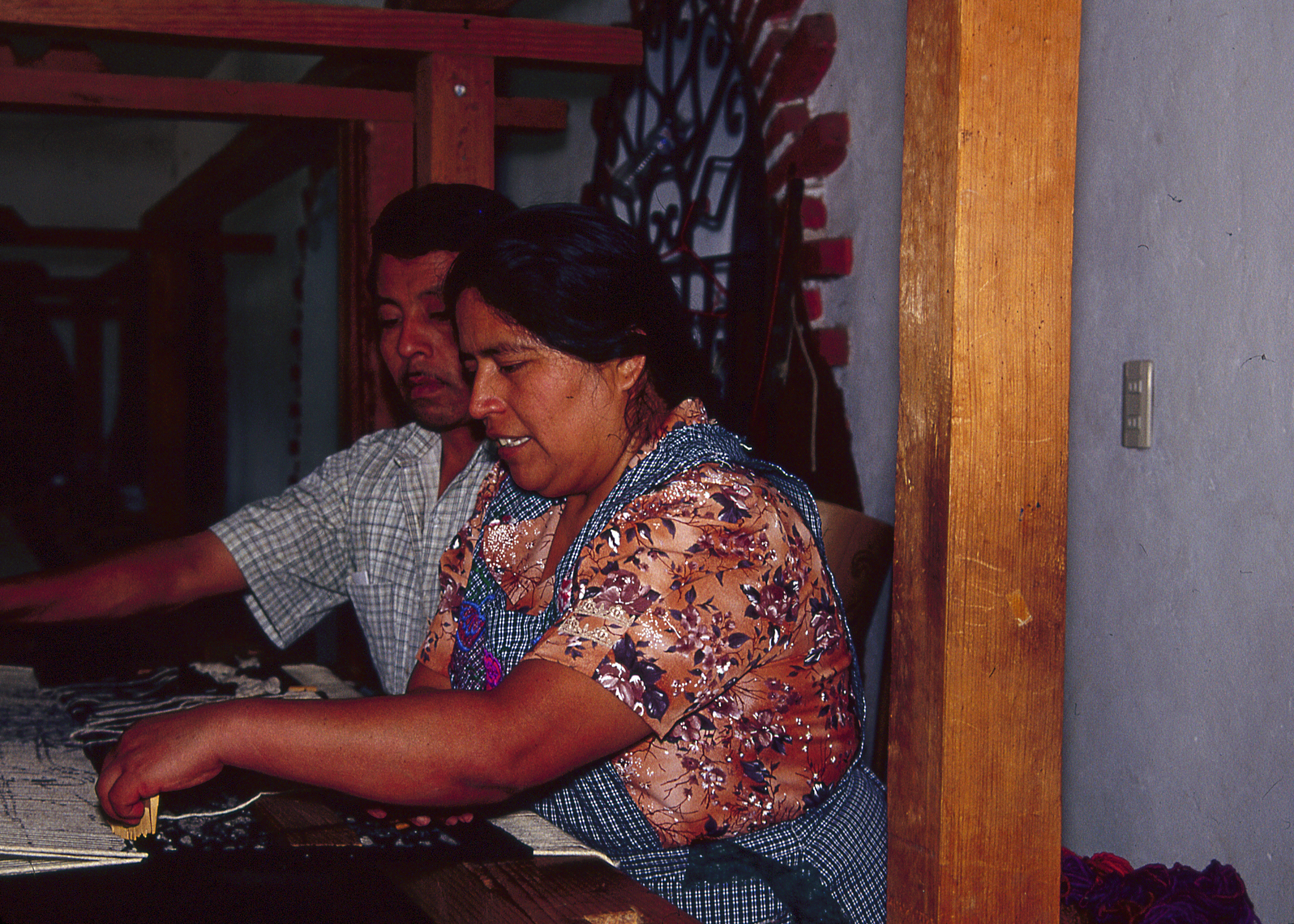 Aida Vasquez Gutierrez and husband Manual working at their workshop in Teotitlán del Valle, Oaxaca